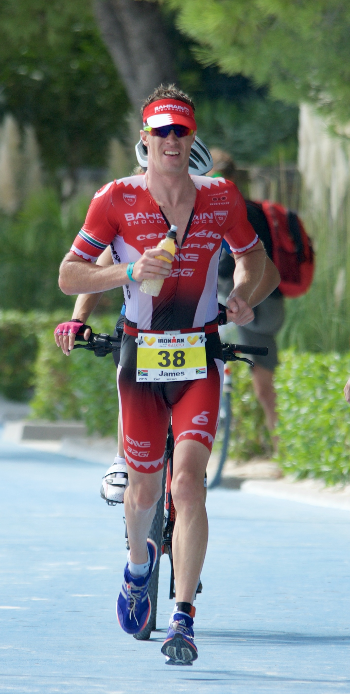 James Cunnama, Ironman Mallorca 2015